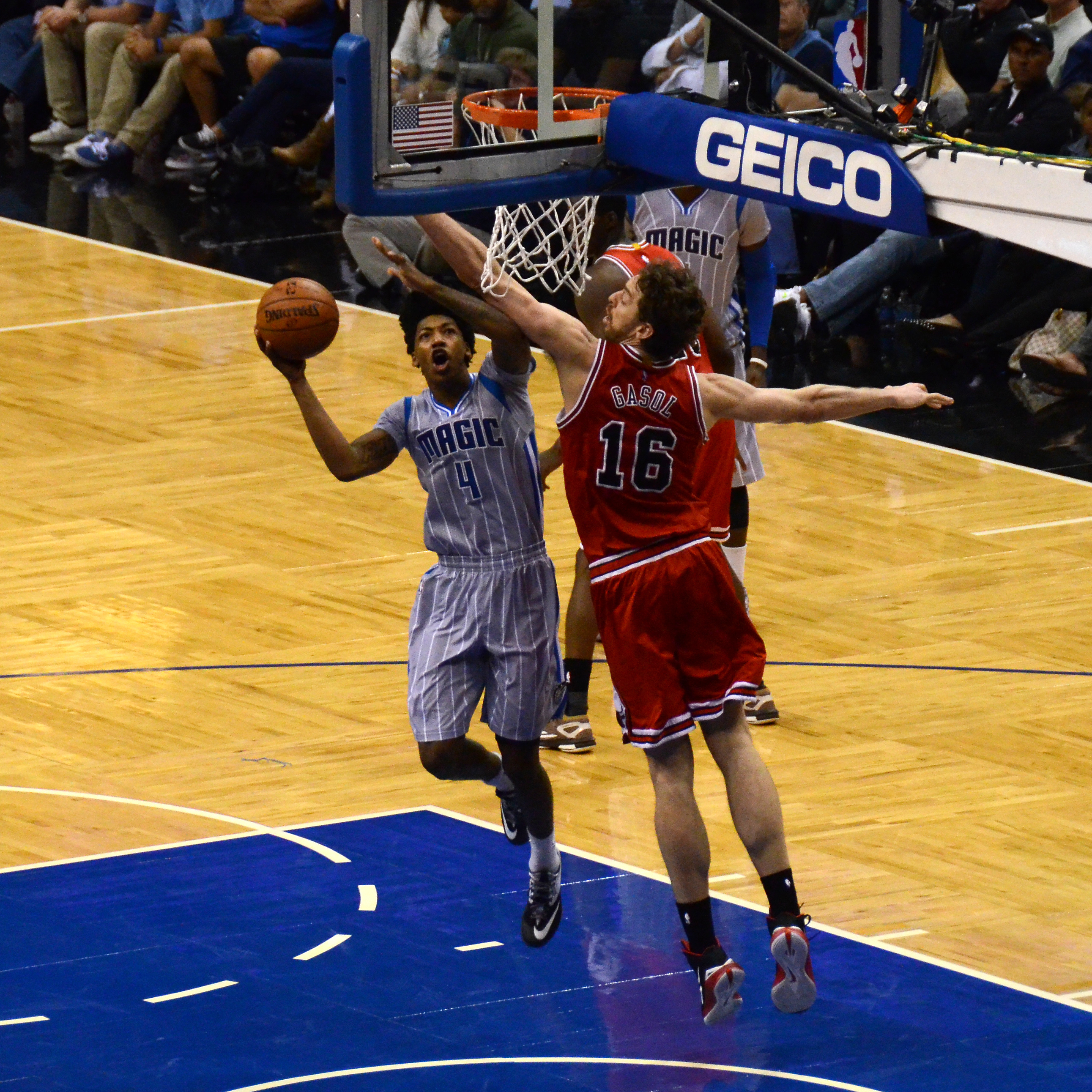 Elfrid Payton Layup